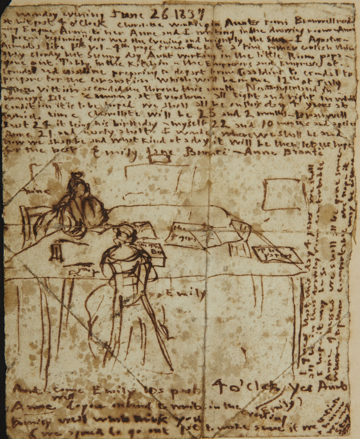 Emily Brontë's diary paper for June 26, 1837, showing herself and Anne working at the dining room table.